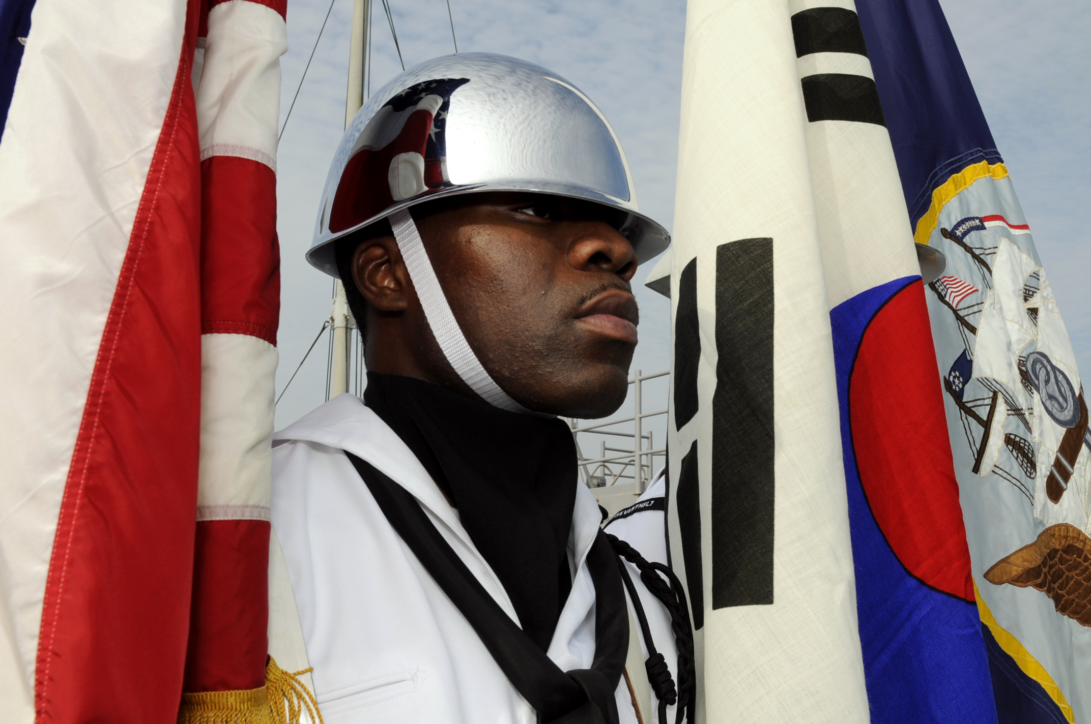 BUSAN, Republic of Korea (Aug. 14, 2009) Personnel Specialist 2nd Class Michael Graham, assigned to amphibious command ship USS Blue Ridge (LCC 19) mans the rails as part of the honor guard while pulling into port. Blue Ridge is taking part in the joint military exercise Ulchi Freedom Guardian (UFG) 2009. UFG is a combined/joint computer simulation driven exercise conducted annually demonstrating the interoperability capabilities between Republic of Korea and U.S. 7th fleet. (U.S. Navy photo by Mass Communication Specialist 2nd Class Cynthia Griggs/Released)